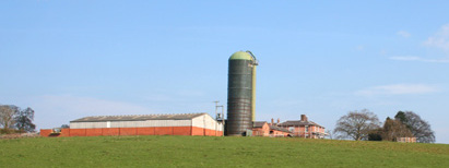 Higher Hall, near Edge Green, near to Hampton Heath, Cheshire, Great Britain. The farm of Higher Hall stands on a rise at around 110m; its silage tower dominates the skyline to the south and west. The gently sloping pasture with occasional mature trees is typical of this gridsquare. The grade-II-listed farmhouse (centre) dates from around 1845. View from the junction of Edge Lane and the A41.